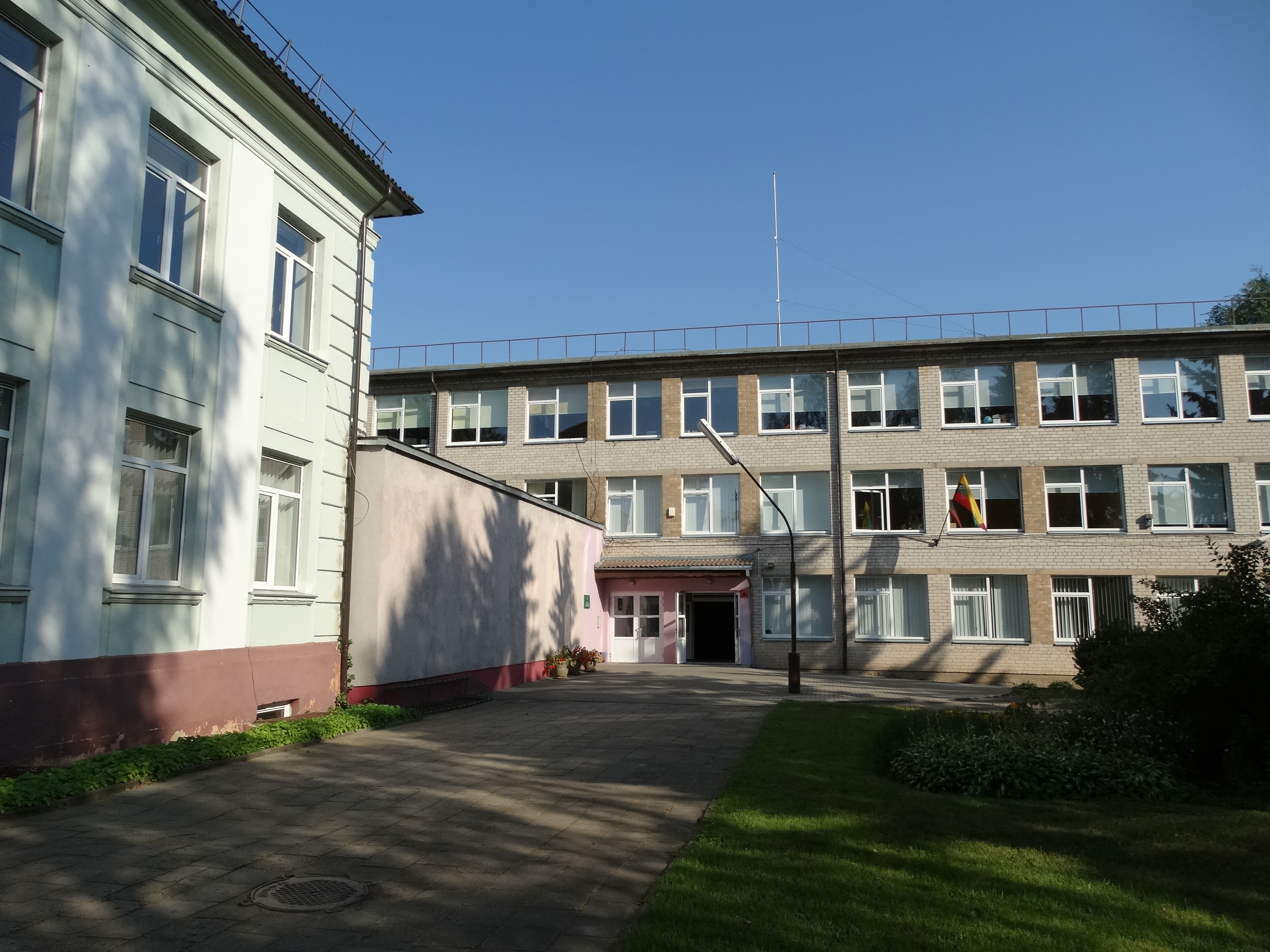 Antanas Vienuolis Progymnasium, Anykščiai, Lithuania